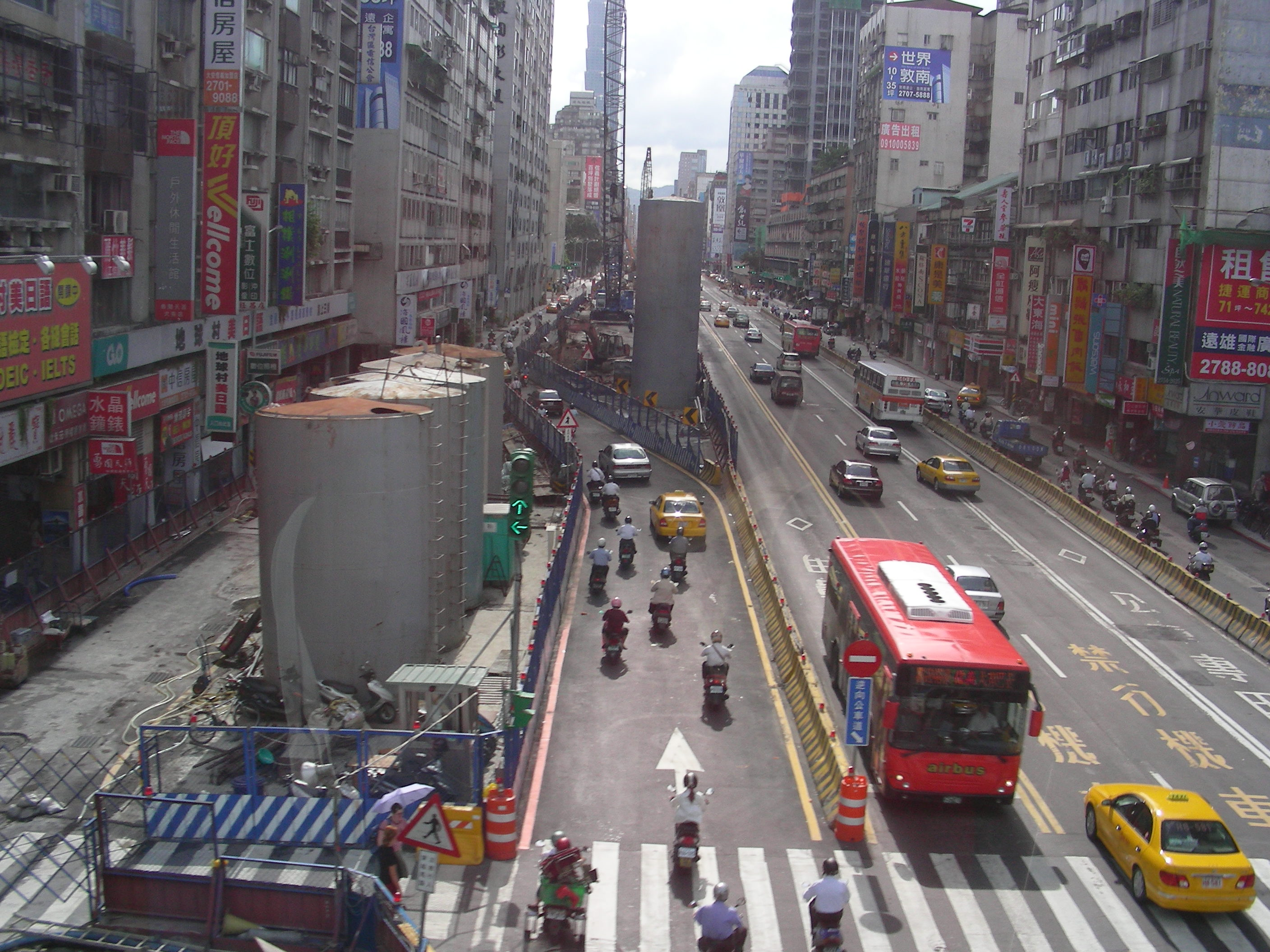 Under Constructing XinyiLine.